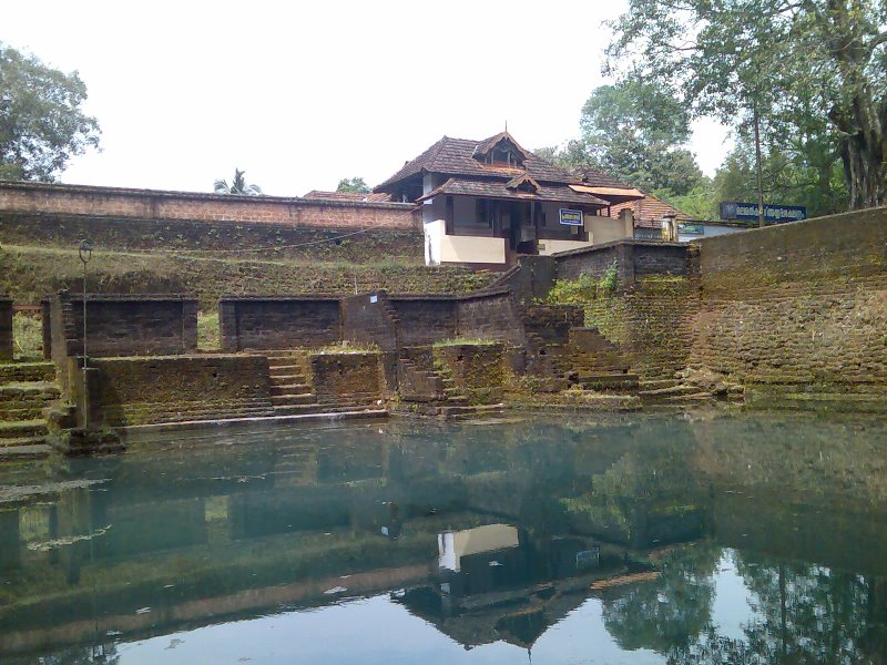 View from the temple pond facing west